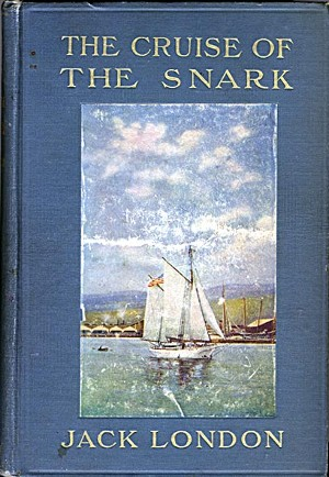 Front cover of the first (1911) edition of Jack London's The Cruise of the Snark